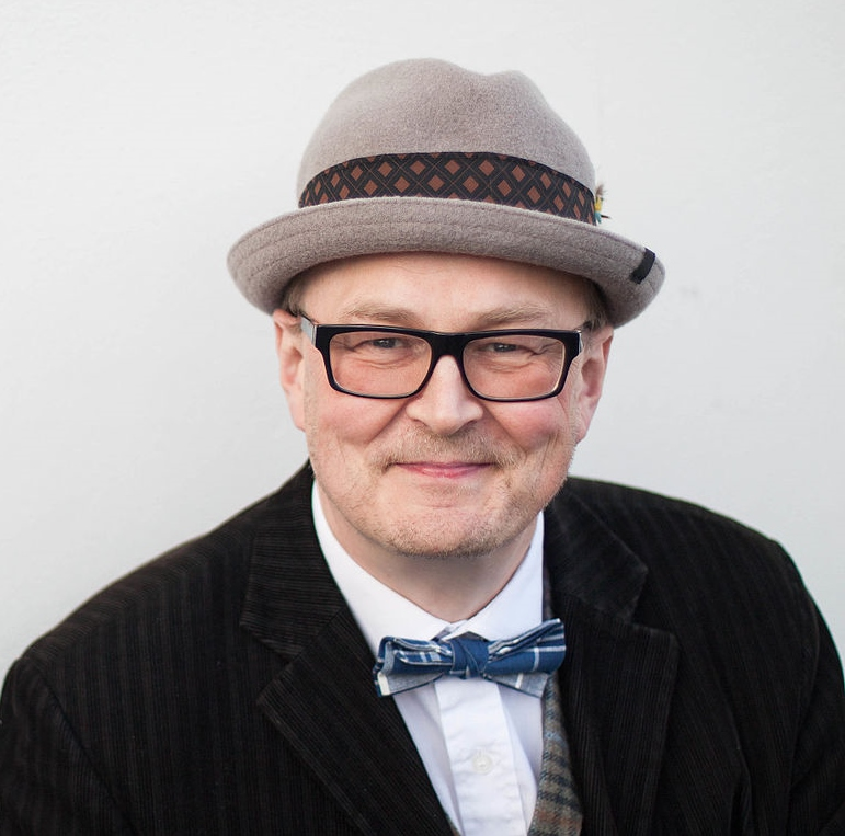 Sigtryggur Baldursson, photo taken under the icelandic conference PopTech 2012 in Reykjavík june, 27-29 2012.